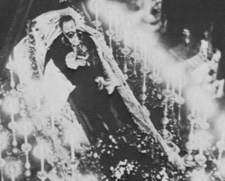 last photo of Ludwig II of Bavaria